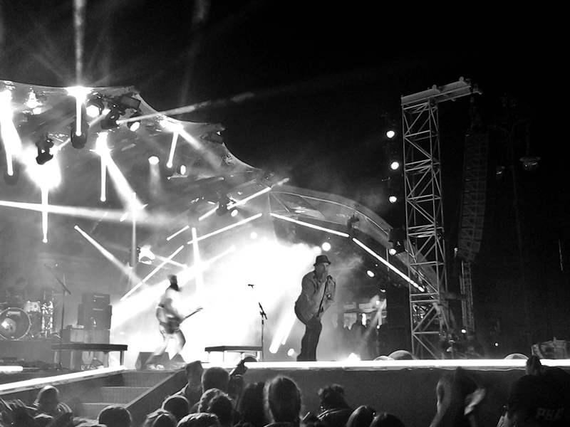 Sven Lauer singer of Jupiter Jones at the Festival of the unit in 2015